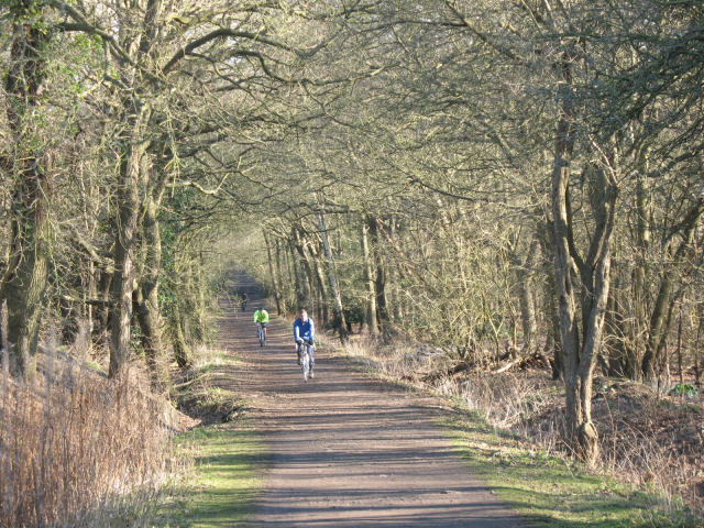 Horse Ride, Wimbledon Common Cyclists enjoying the descent on this track down the western slopes of the Common.